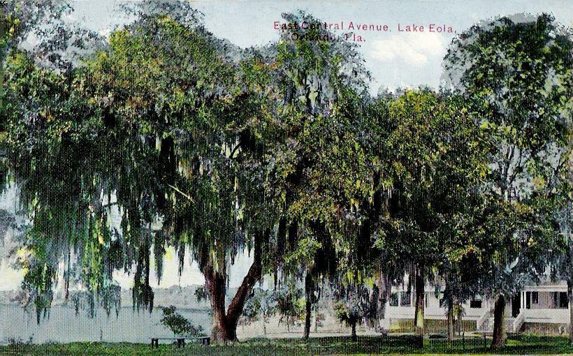 Lake Eola Park from East Central Boulevard, Orlando, FL; from a 1911 postcard.